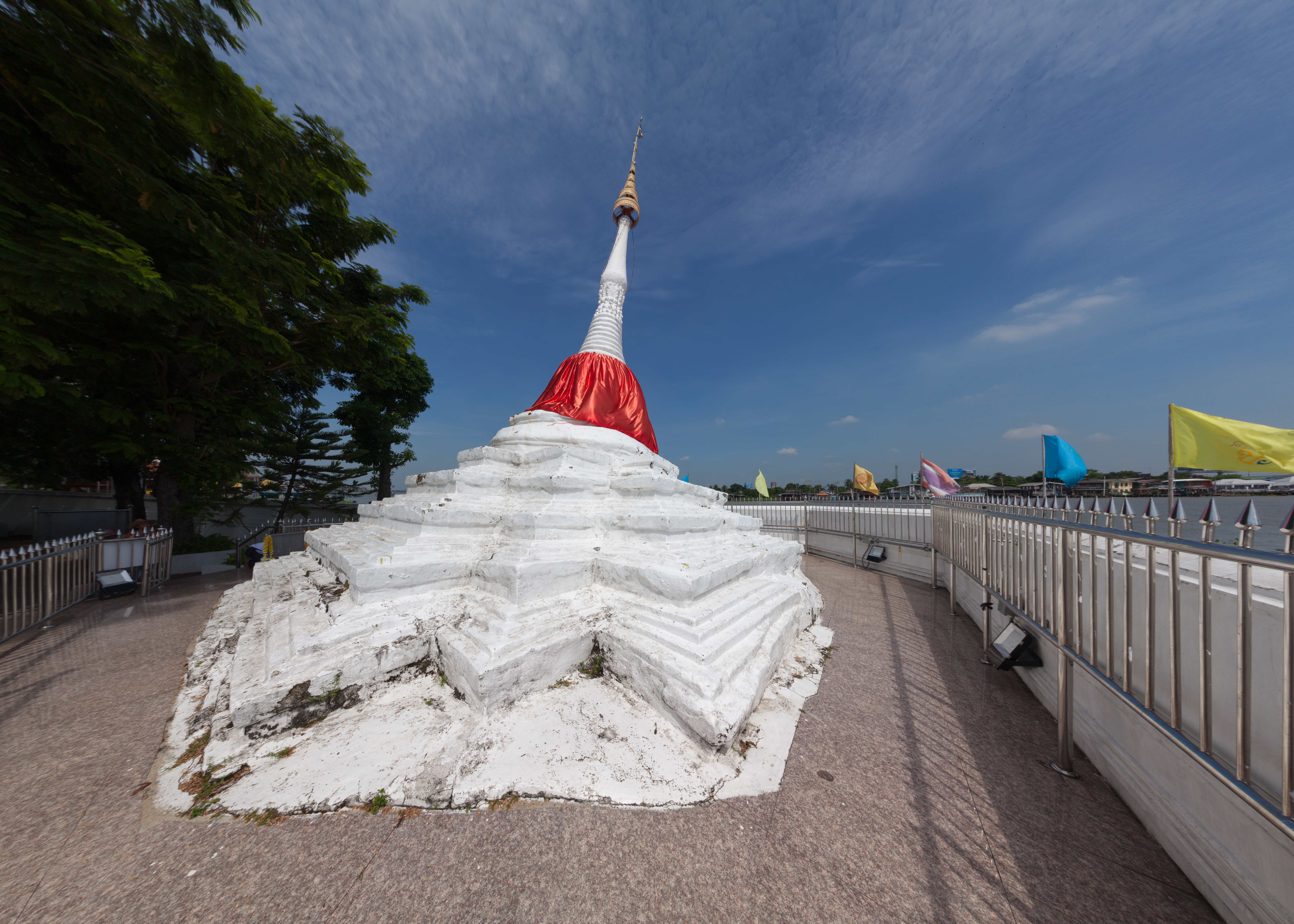 Wat Paramai Yikawat, Nonthaburi, Thailand.